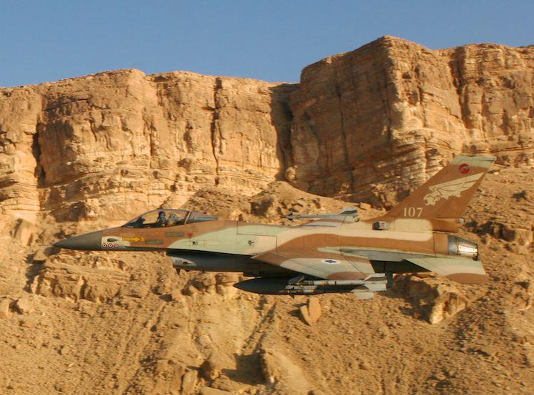 F-16A Netz fighters of the Israeli Air Force, including Netz 107, with the highest record of shot-downs for a F-16.